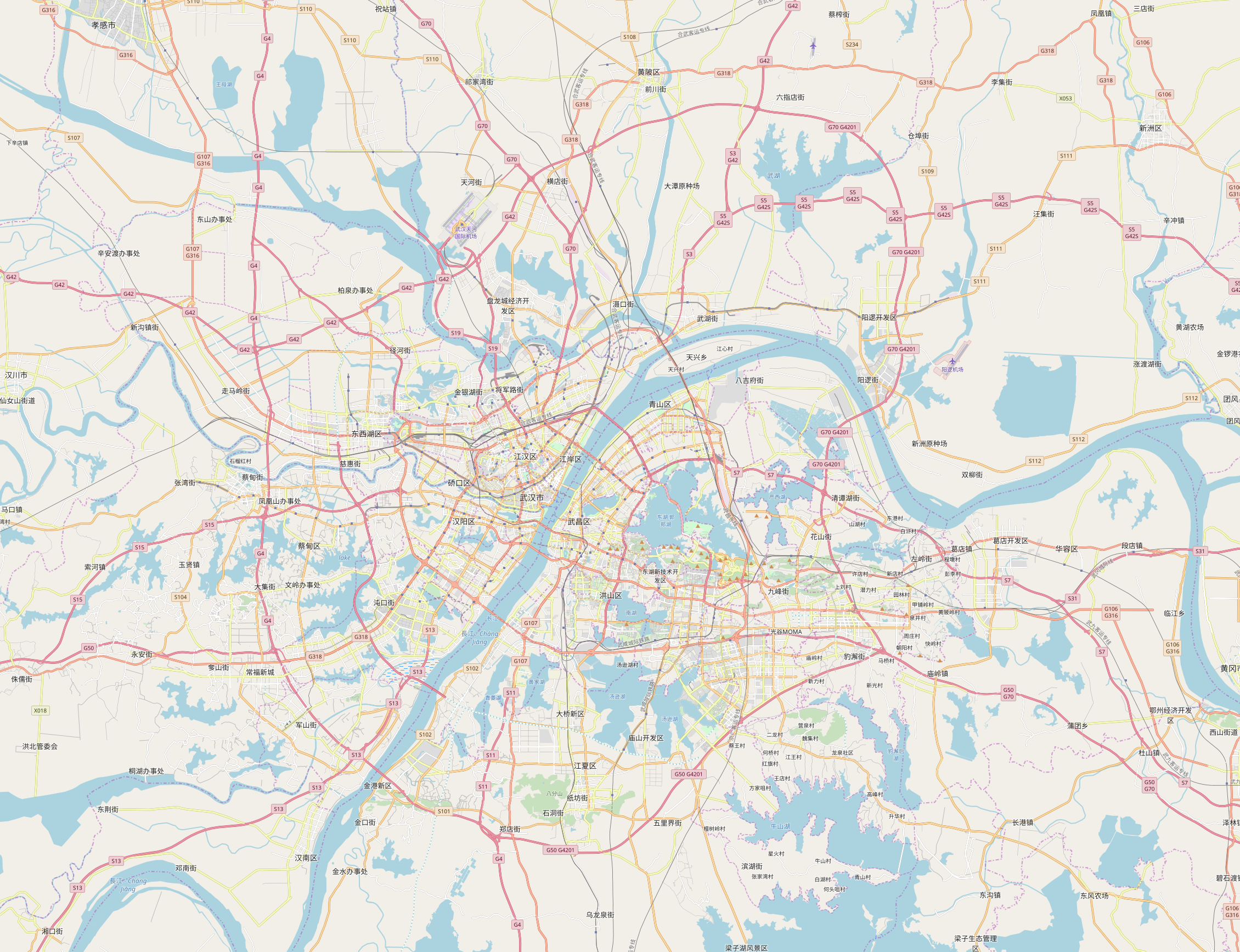 Map of Wuhan Urban Area（2018）